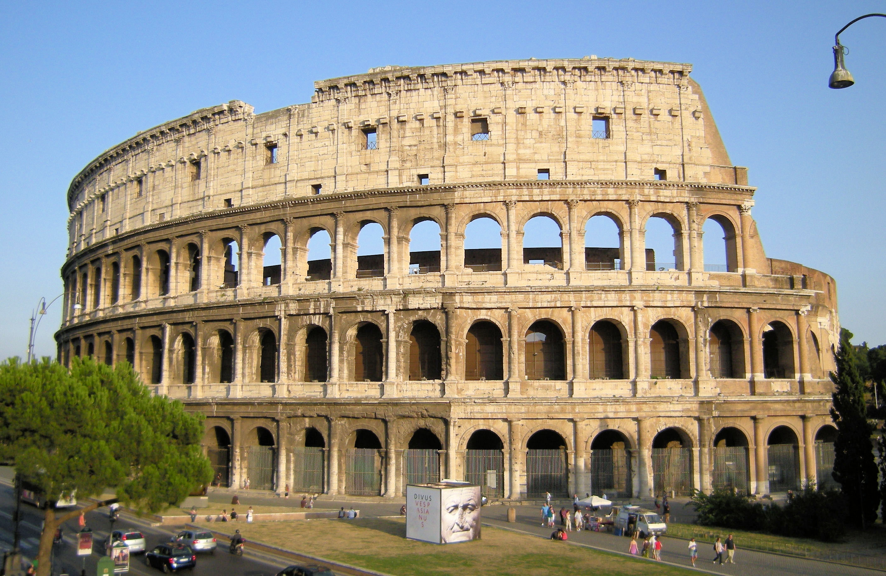 Colosseum photographed from above during the summer in Rome. Compact camera.